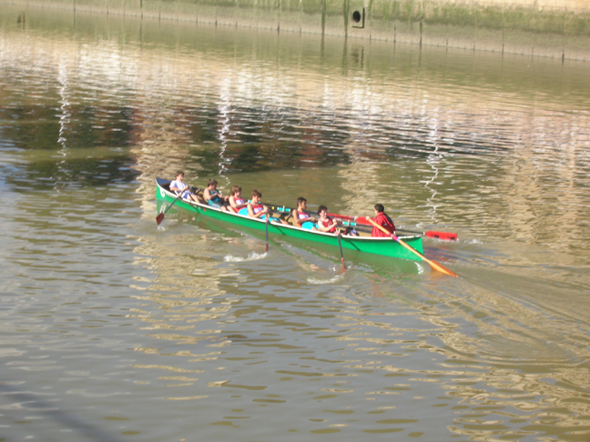 hecha por mi